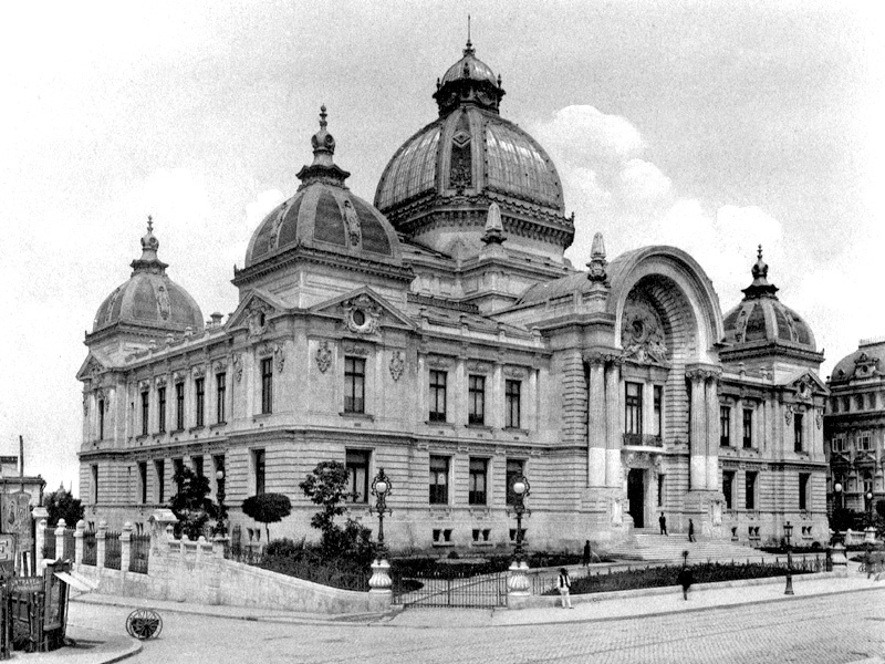 photograph of Bucharest Clădirea CEC